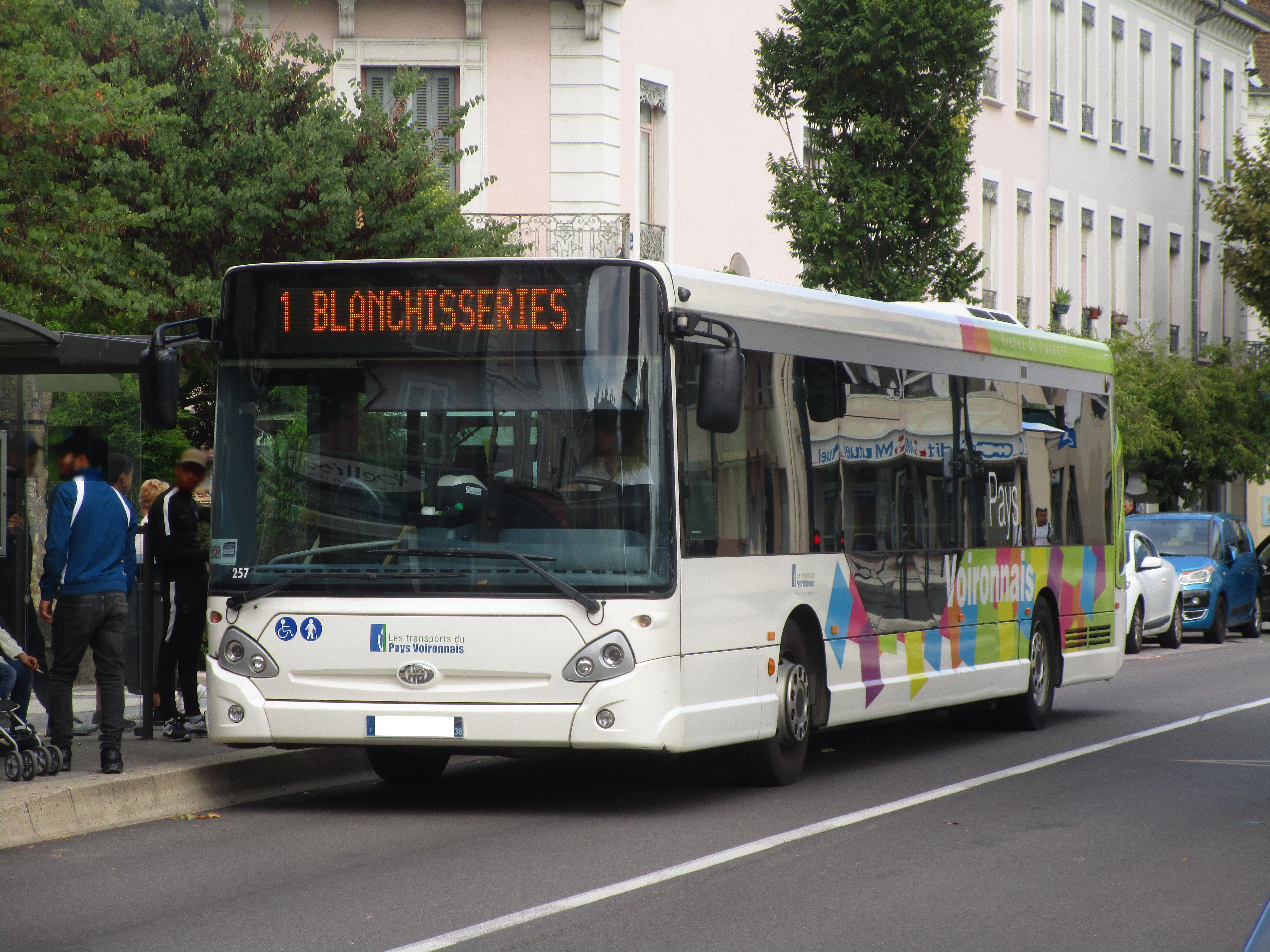 An Heuliez GX 327 (n°257 of Perraud Voyages) running on Transports du Pays voironnais’s line 1 — Paviot, Voiron↔Blanchisseries, Voiron — at the call Avenue des Frères Tardy (Voiron, France) on August 10, 2017.